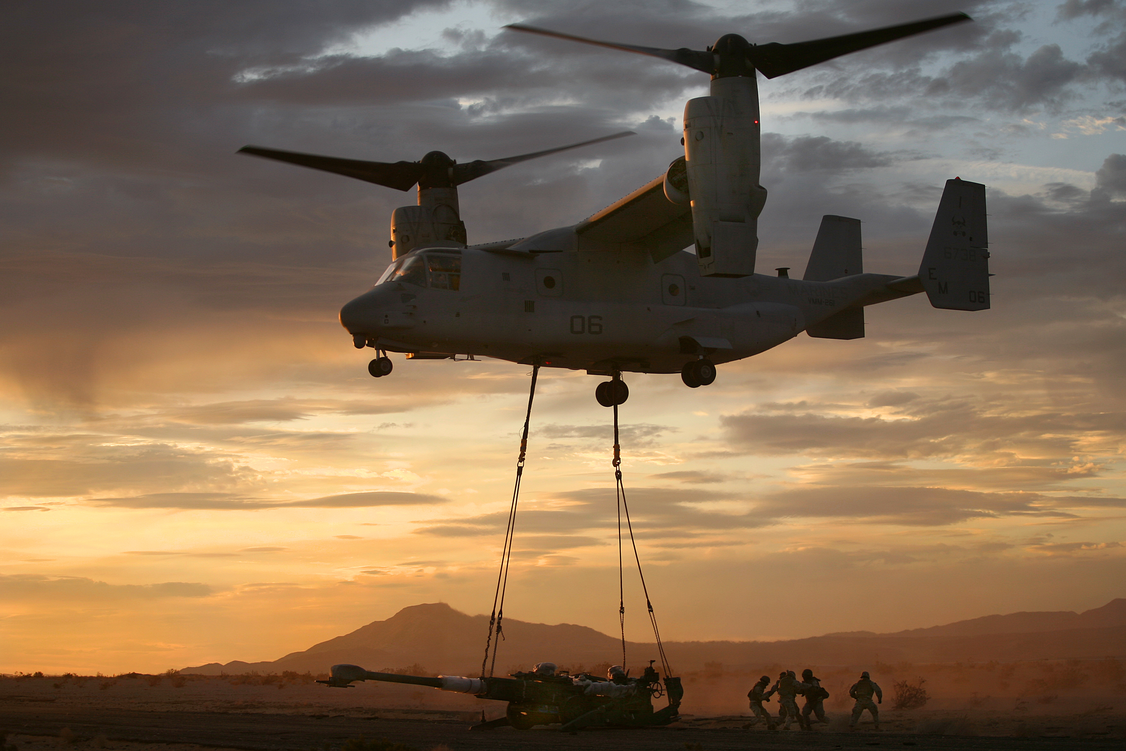 A U.S. Marine Corps MV-22 Osprey aircraft lifts an M-777 howitzer with the help of Marines during an airlift operation at Landing Zone Sandhill on Marine Corps Air Ground Combat Center, Twentynine Palms, Calif., July 10, 2009.